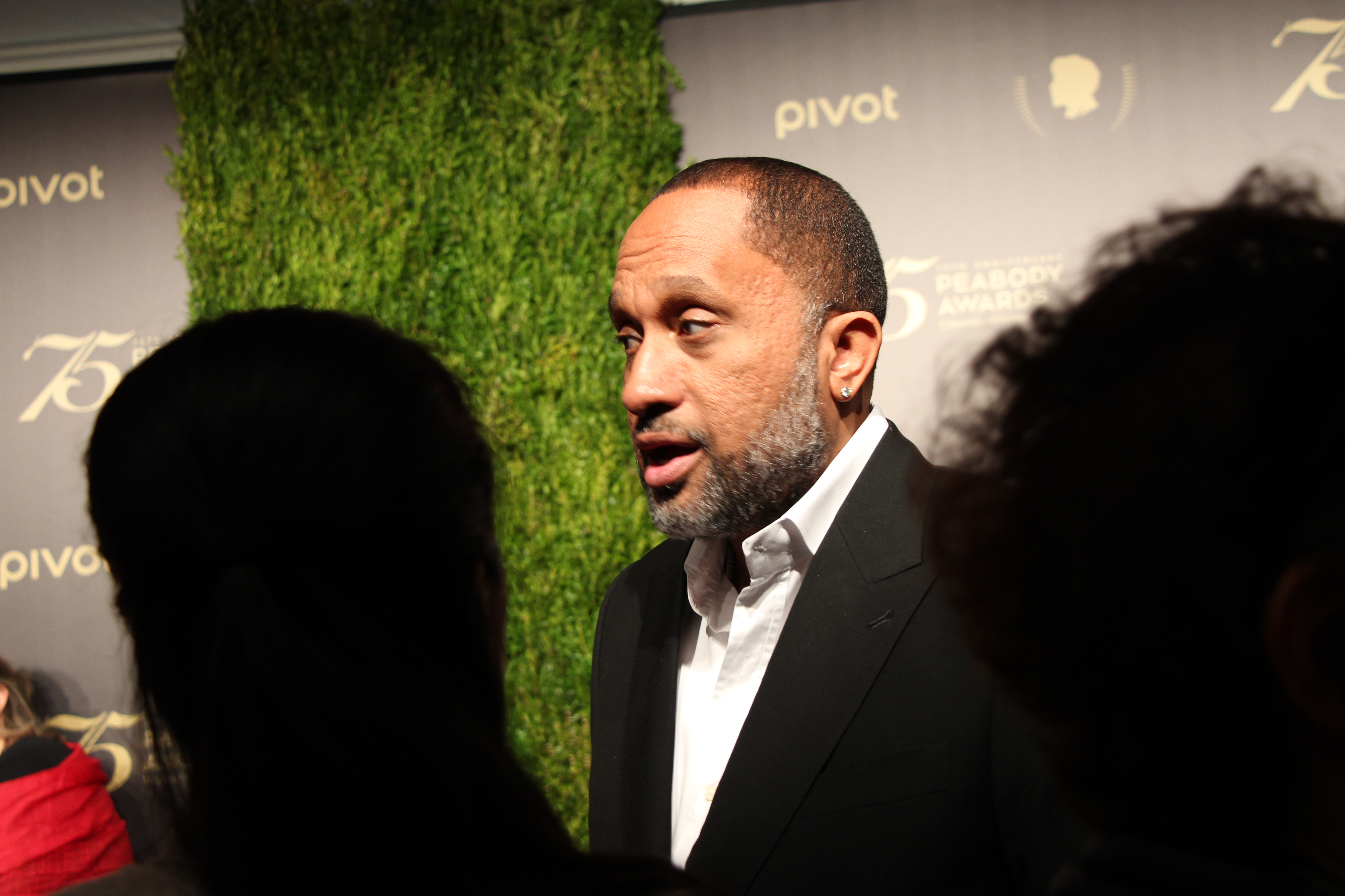 This photo includes Kenya Barris, the Series Creator and Executive Producer of "Blackish." (Photo/Sarah E. Freeman/Grady College, in New York City, Georgia, on Saturday, May 21, 2016)